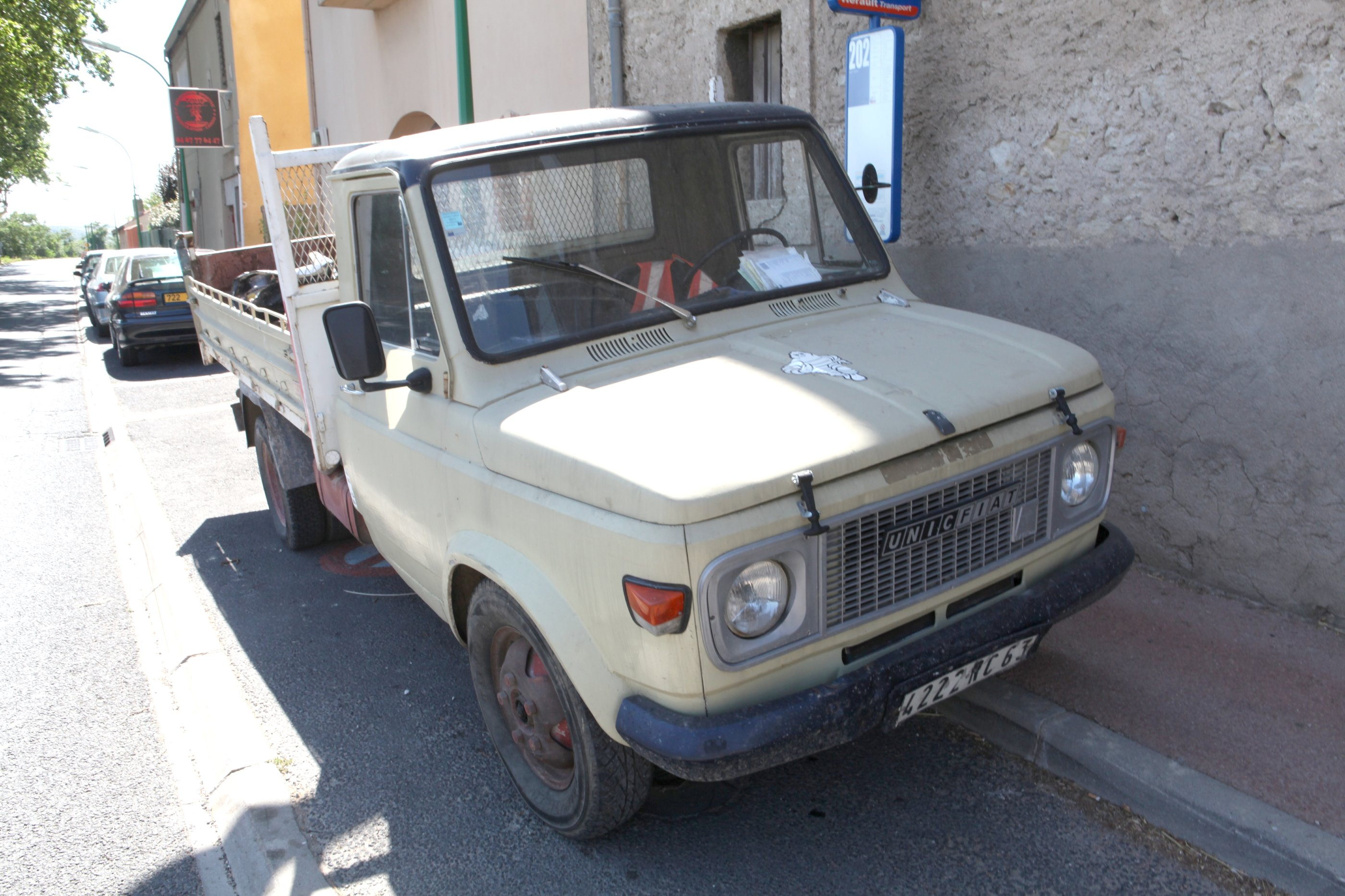 Fiat Unic 1973